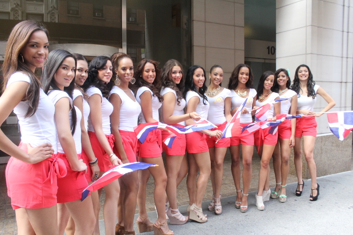 Dominicans